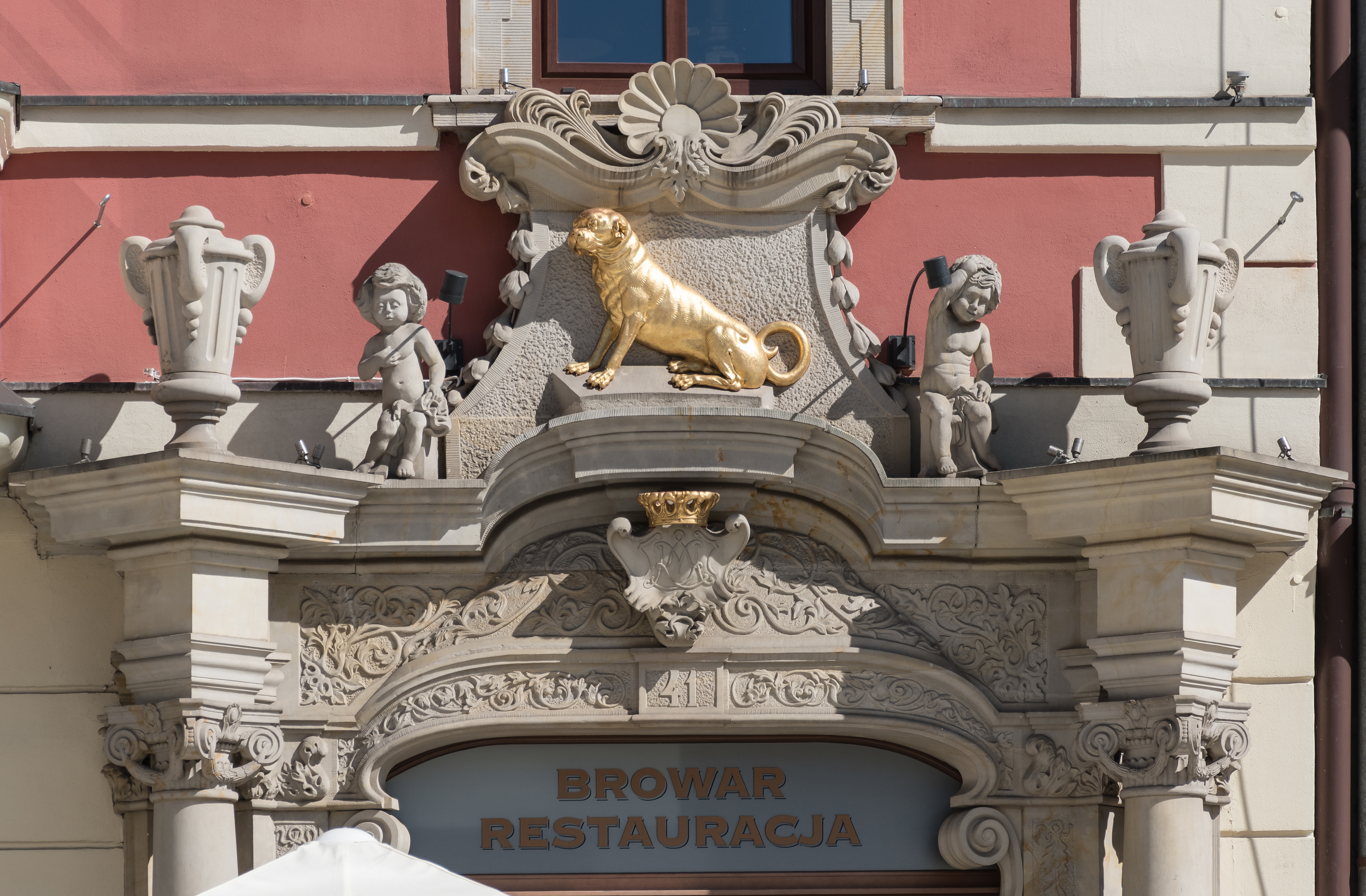 House of the Golden Dog in Wrocław